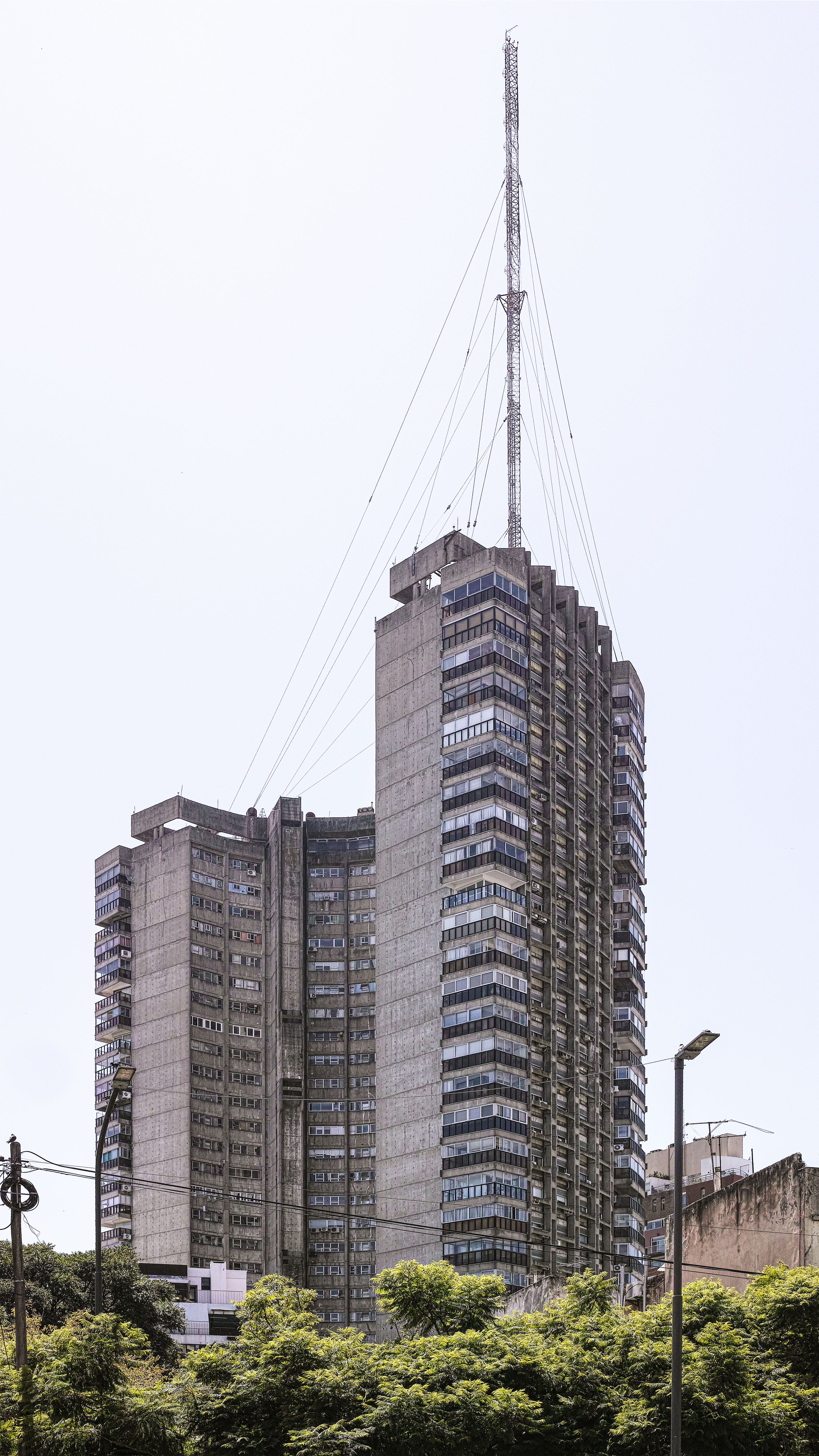 La Torre Dorrego es un monumental edificio de departamentos que se encuentra cerca del Regimiento de Infantería 1 Patricios, en el barrio de Palermo, en la ciudad de Buenos Aires, Argentina.